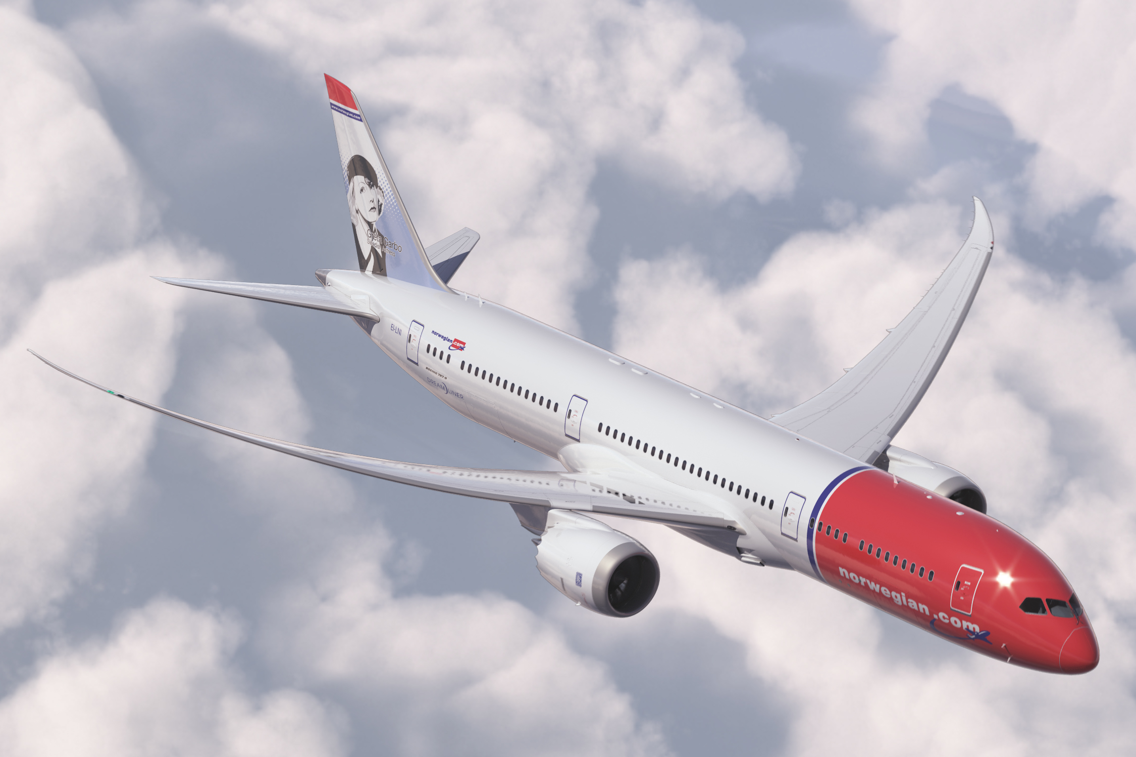 Rendering of a Norwegian Boeing 787-9